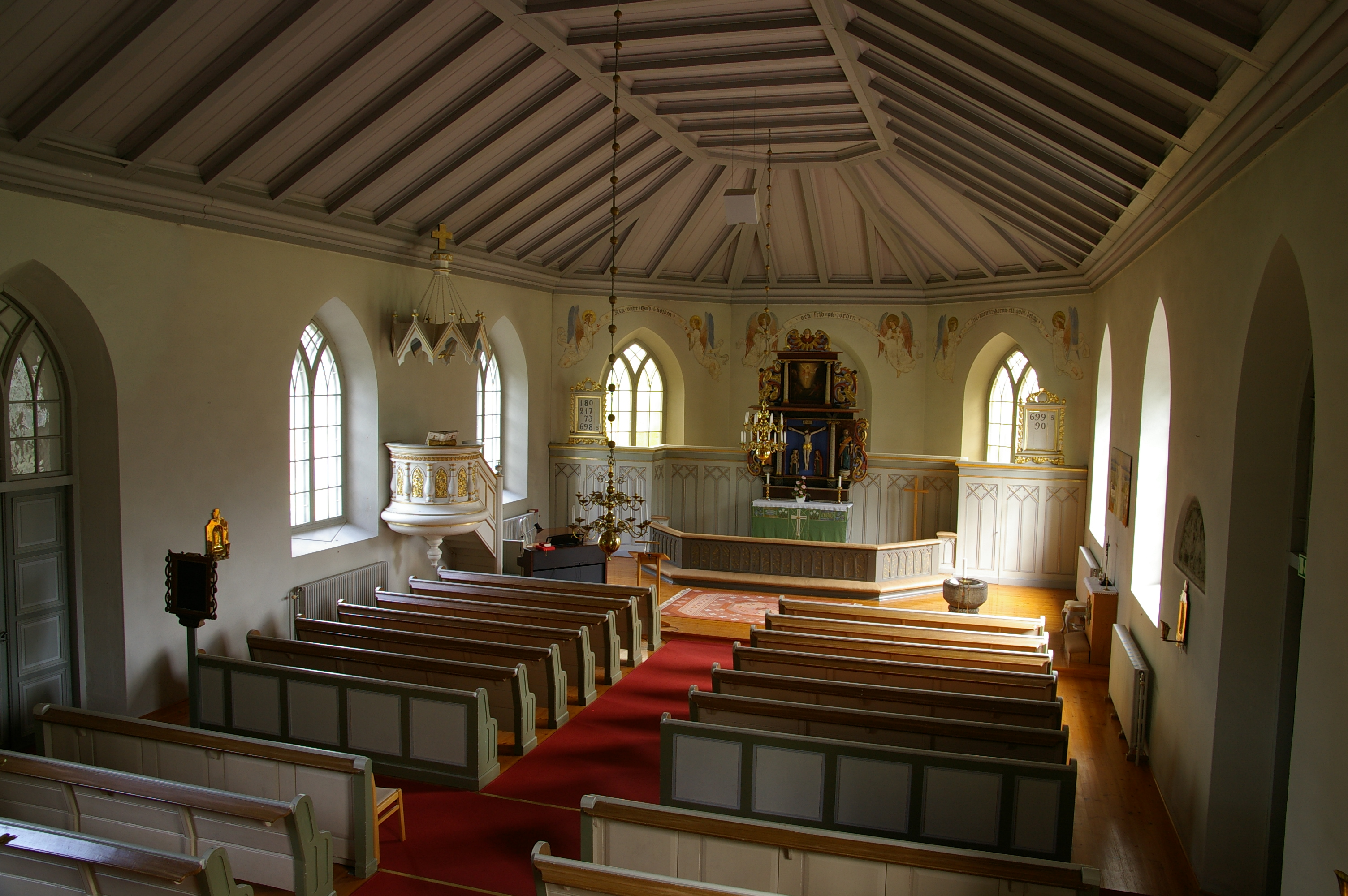 Sjogerstad church in Västergötland, Sweden.